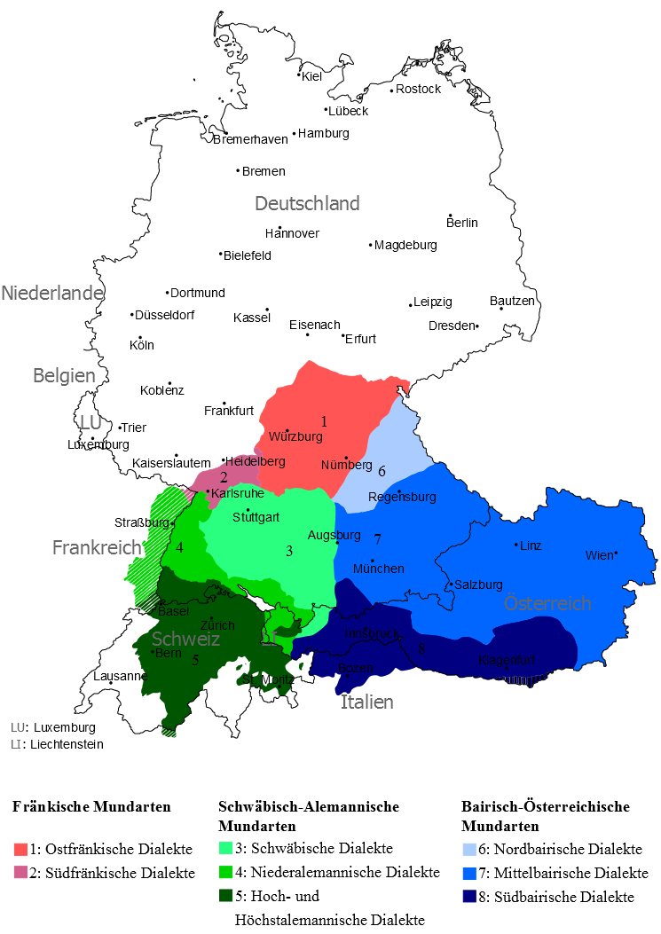 Upper German dialects after 1945